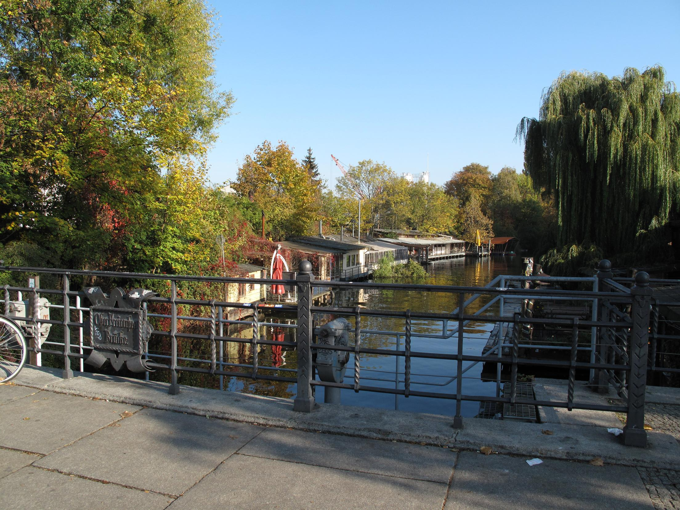 Listed Obere Freiarchenbrücke (bridge), crossing the Flutgraben of the Landwehrkanal (canal) in Berlin-Kreuzberg.